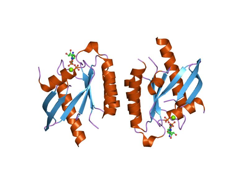 Cartoon representation of the molecular structure of protein registered with 2gjs code.